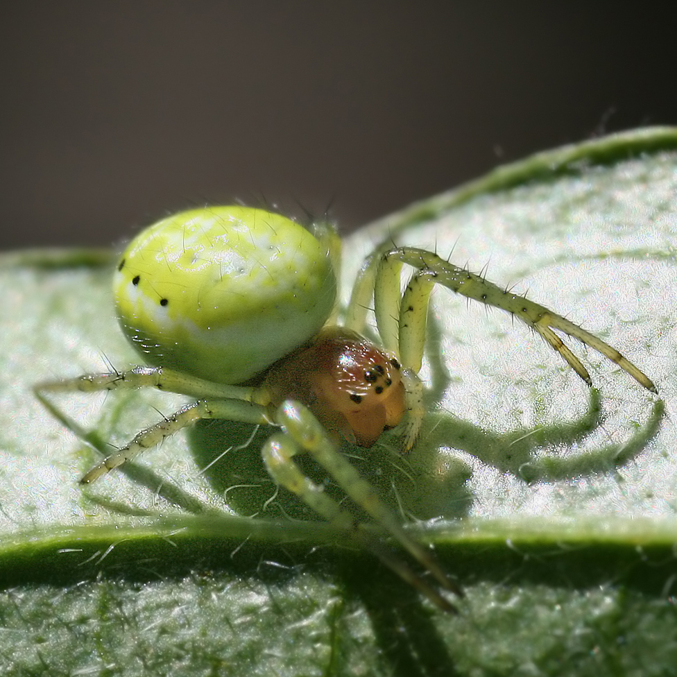 Description: AMisumena vatia from front